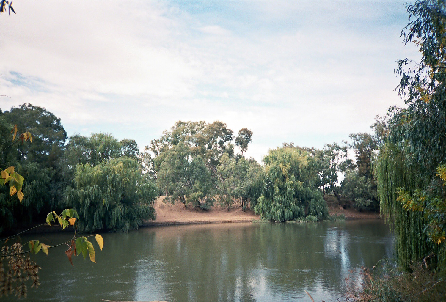 Murrumbidgee River at Wagga Wagga in 2003